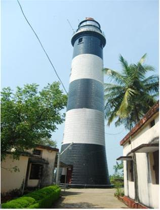 Kadalur